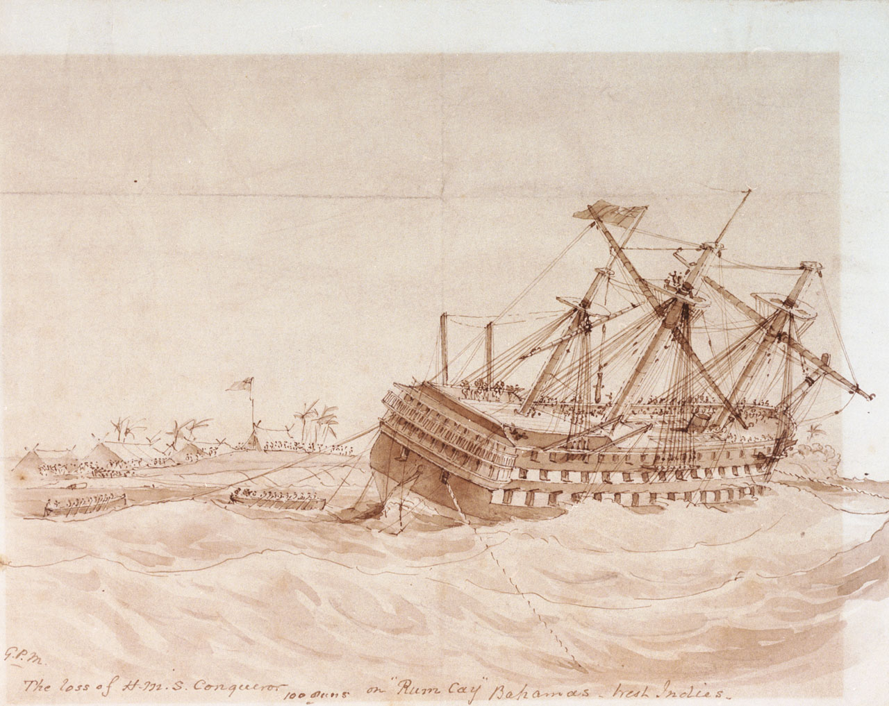 The loss of HMS 'Conqueror',100 guns, on Rum Cay, Bahamas, 29 December 1861 Signed lower left 'G.P.M' and inscribed along the bottom 'The loss of H.M.S. Conqueror 100 guns on Rum Cay, Bahamas, West Indies'. The 'Conqueror' was a 101-gun screw-assisted 1st-rate, of 3225 tons, built at Devonport in 1855. Under Captain Edward Sotheby she was carrying troops to assist French intervention in Mexico when wrecked on Rum Cay due to a navigational error, on 13 December 1861. All 1400 people on board got off safely. Mends would only just have arrived on the North American and West Indies station (as flag-captain of the 'Edgar') at the time of 'Conqueror's' loss, and the fact this drawing is dated two weeks after the wreck suggests he saw salvage work in progress that day, even though this is probably a composed drawing rather than an on-the-spot scketch. The remains of the ship are known and now designated as an underwater museum site, popular with divers. The loss of HMS 'Conqueror' ,100 guns, on Rum Cay, Bahamas, 29 December 1861